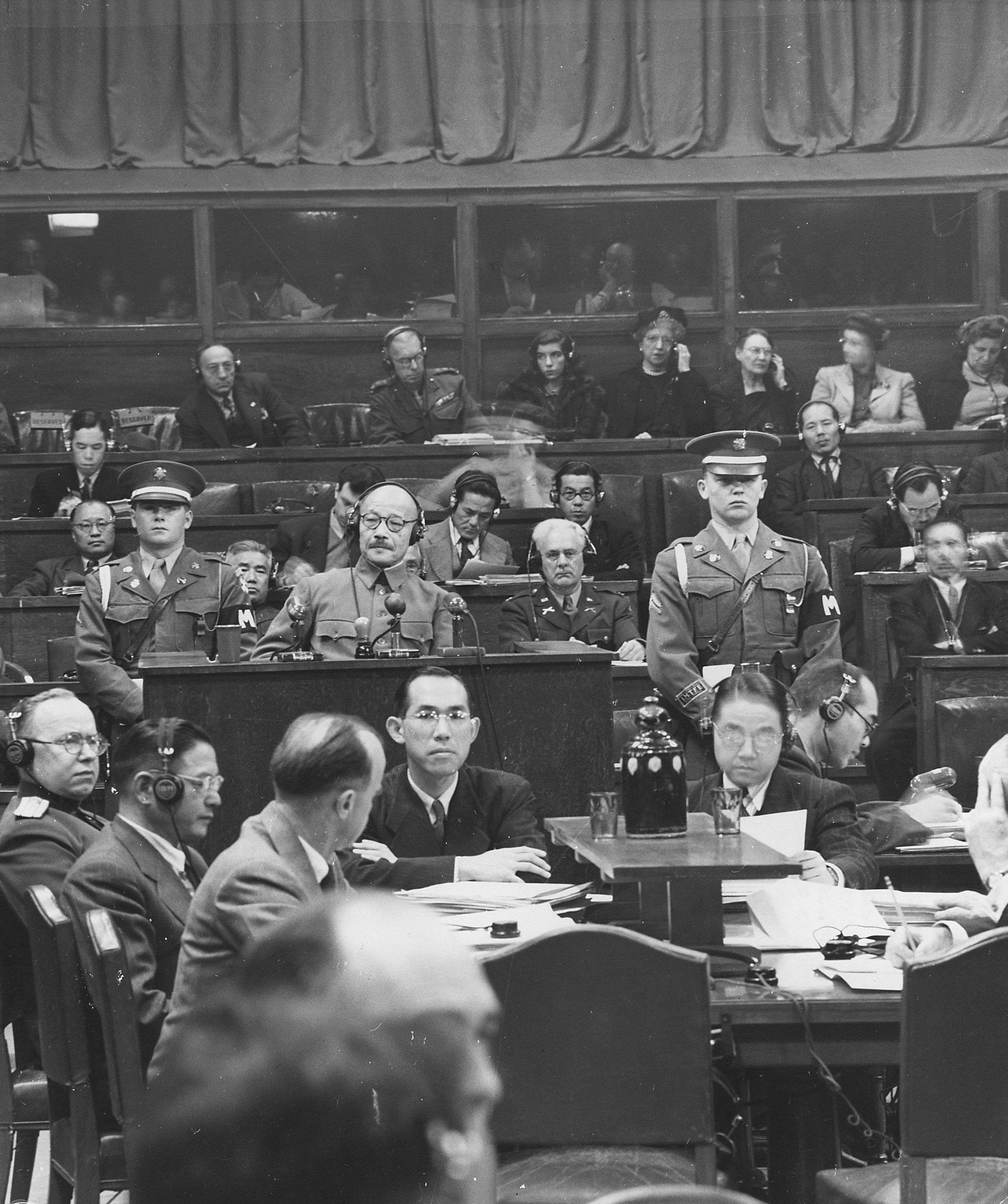 Scope and content: TOJO TAKES THE STAND. - Hideki Tojo, former Japanese General Premier and War Minister, from December 2, 1941 to July 1944, takes the stand for the first time during the International Tribunal trials, Tokyo, Japan. He is testifying in his own behalf during the defense phase of the trials. Tojo is surrounded by the Tribunal's staff.